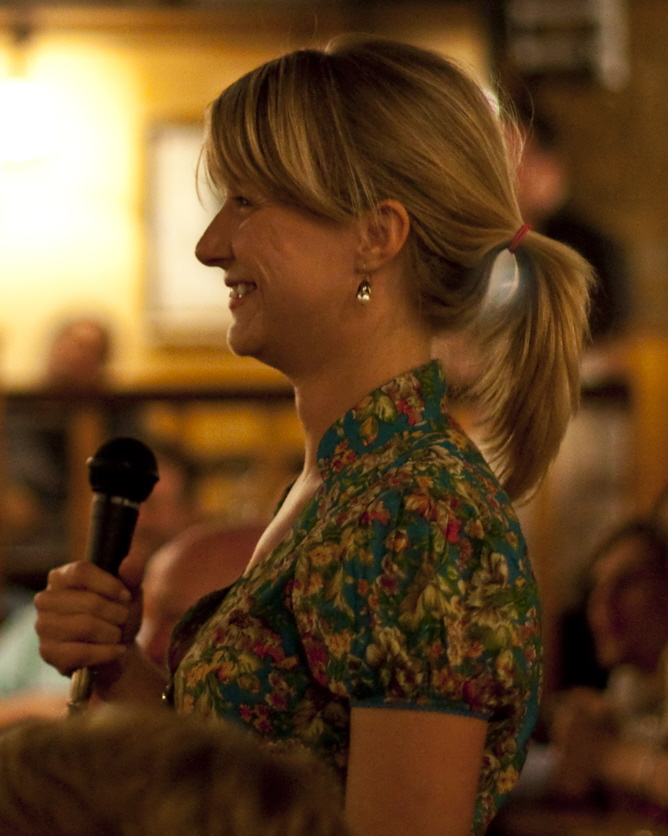 Brooke Magnanti, a.k.a Belle de Jour